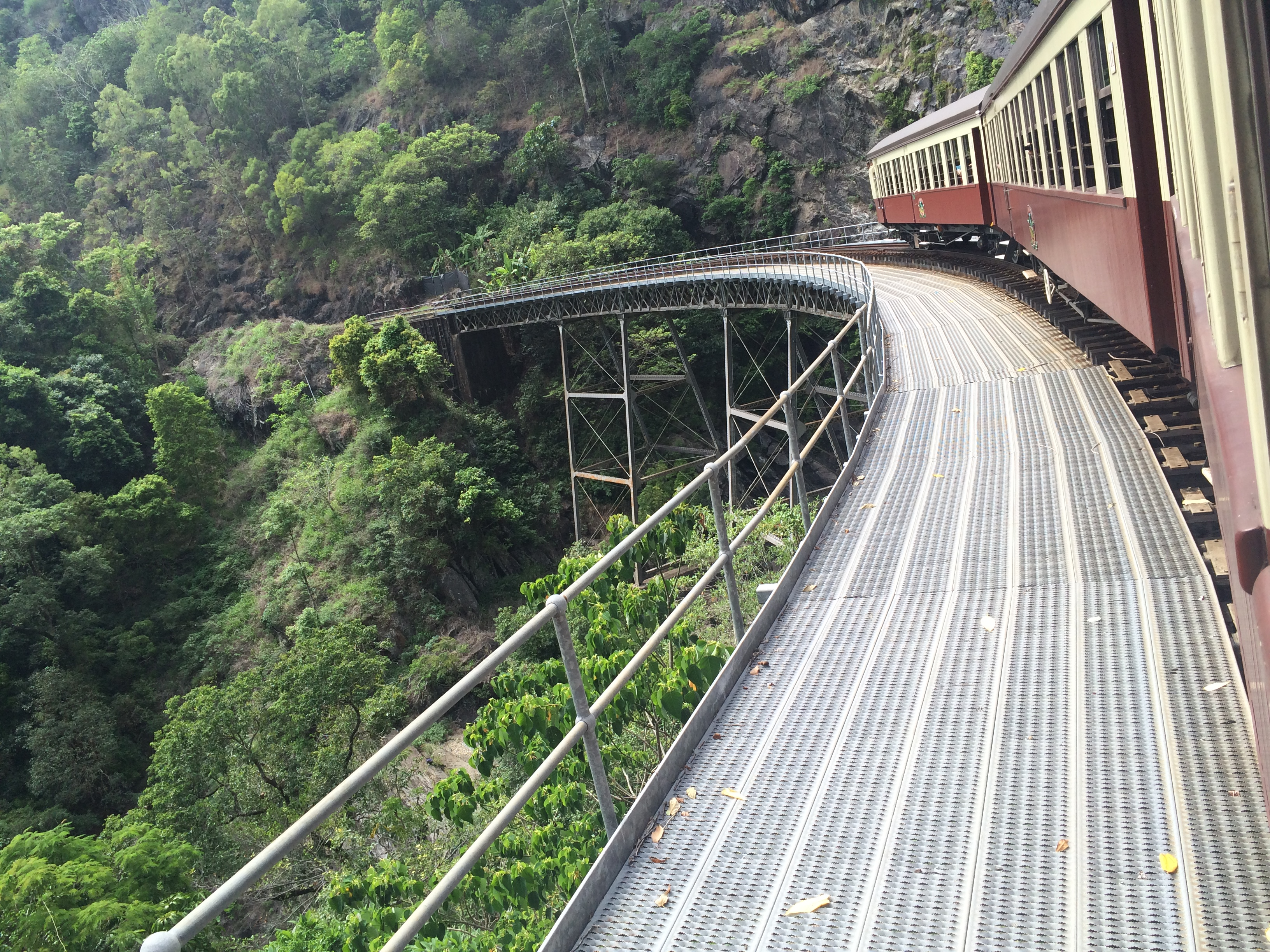 this is a picture that i took of the back the train while passing over a bridge that went off the side of the mountain